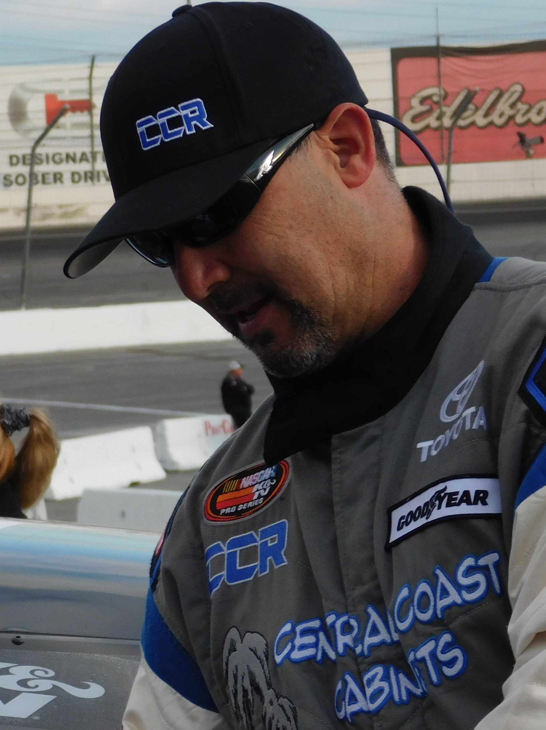 Todd Souza at Irwindale Speedway in 2017